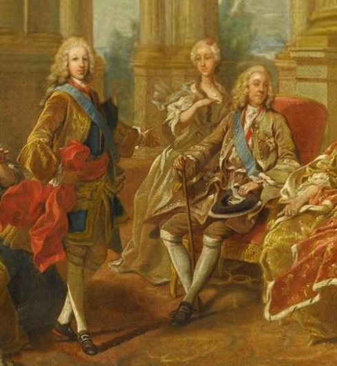 Fernando, Prince of Asturias, Infanta Maria Antonia and King Philip V of Spain (detail of portrait by Louis Michel van Loo)